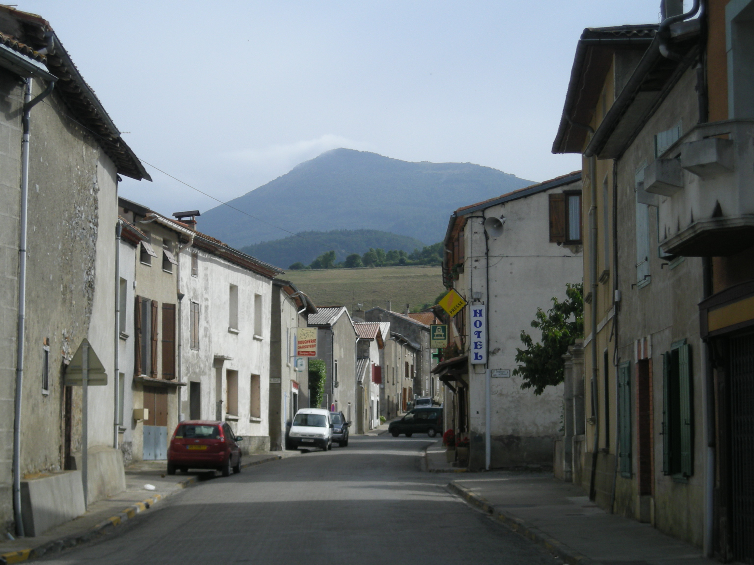 Street in Espezel (Aude)